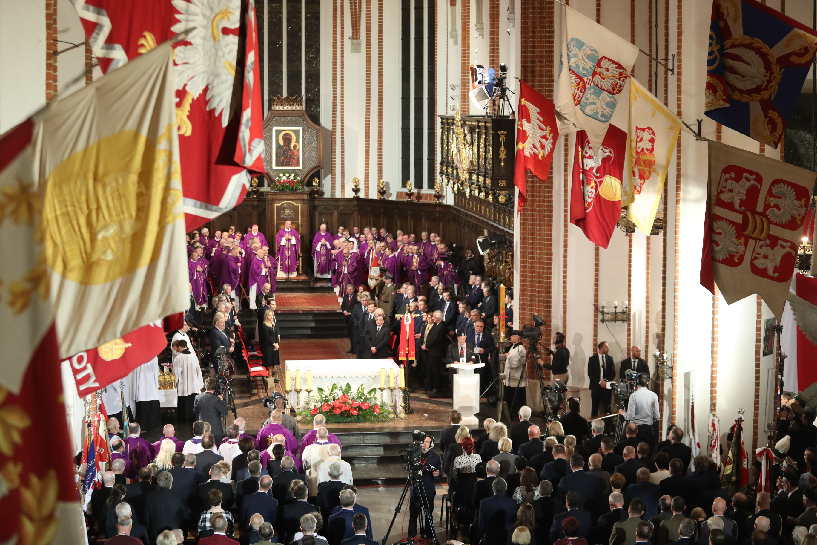 Celebrations of the 8th anniversary of the tragedy near Smolensk. Mass on the 8th anniversary of the tragedy. Warsaw. Poland.